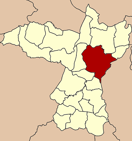 Map of Khon Kaen Province, Thailand, highlighting the district Mueang Khon Kaen (อำเภอเมืองขอนแก่น)